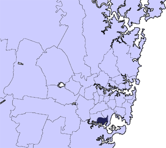 Locator Map Kogarah lga sydney.png Based on Image:Ku-ring-gai sydney.png by User:Randwicked.